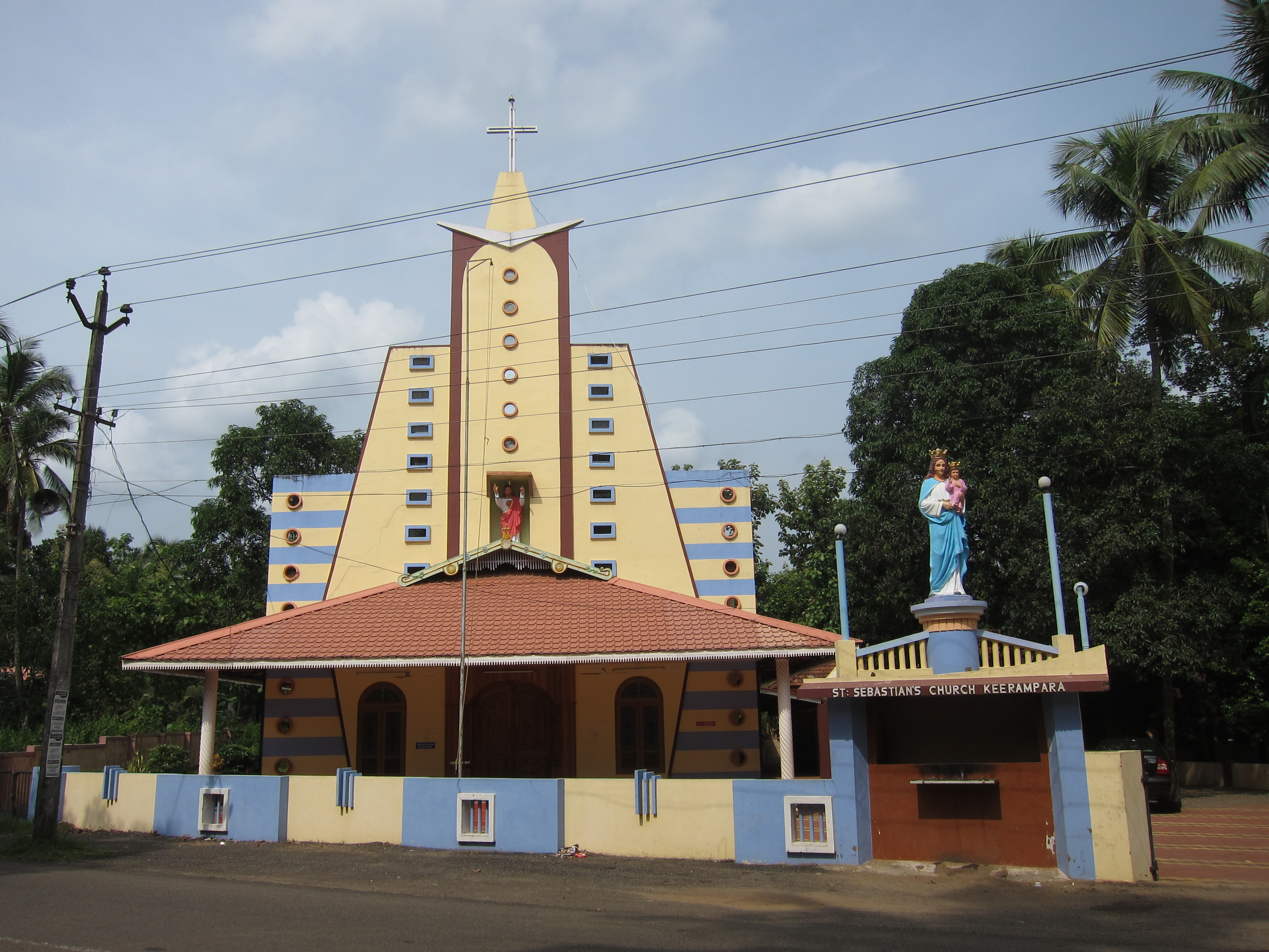 Keerampara - St. Sebastian Church, Kothamangalam Diocese, Ernakulam District, കീരംപാറ സെന്റ് സെബാസ്റ്റ്യൻ ചർച്ച്